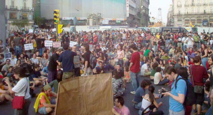 Rally for adequate housing in the Puerta del Sol, Madrid.